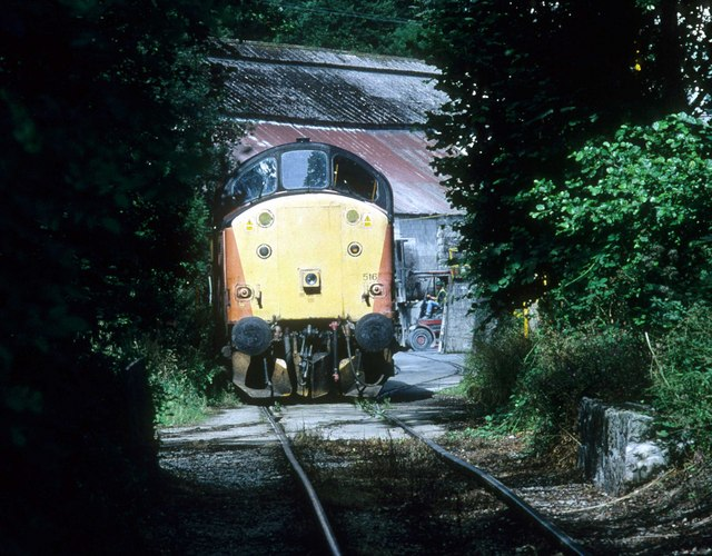 Cement train shunts at Moorswater sidings